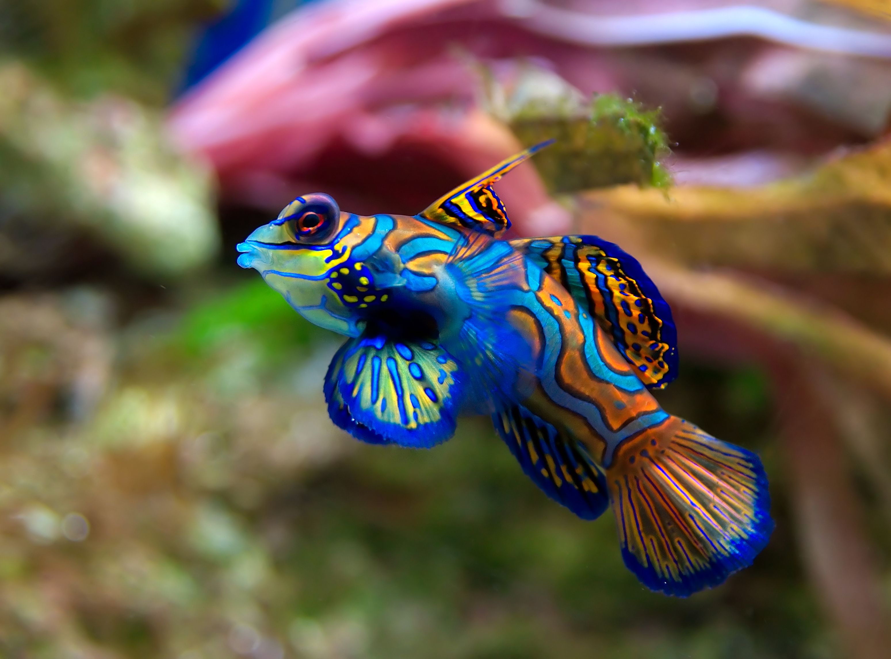 Mandarinfish in aquarium-Muséum Liège (Belgium)